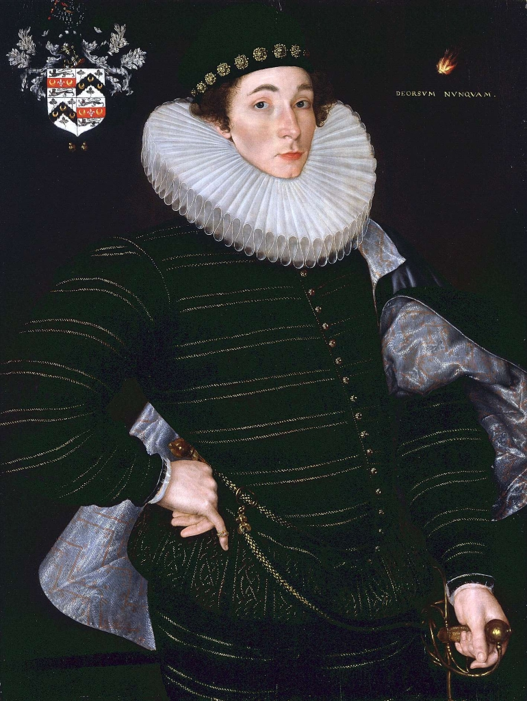 Portrait of Richard Goodricke of Ribston. On the right side of the painting a comet is pictured, the Great Comet of 1577, coupled with a latin phrase meaning 'never downwards'. Richard Goodricke reached adulthood in 1577 and apparently decided to have himself pictured with this omen.